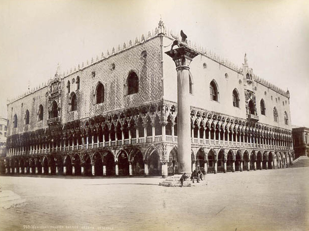 Carlo Naya (1822-1881) - "Venice. Doges' Palace - Overall view". Catalogue # 253.